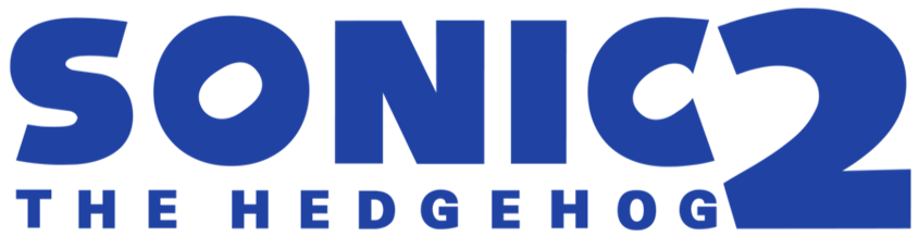 The logo of Sonic the Hedgehog 2.